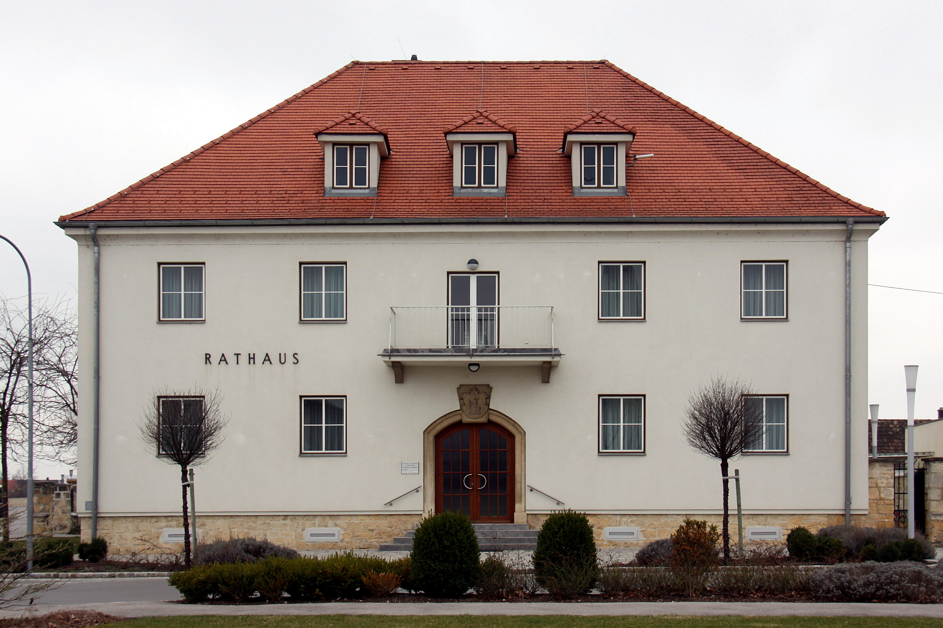 Sankt Margarethen im Burgenland - Municipal office